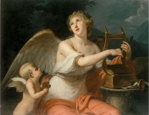 89.5 × 116.5 cm (35.2 × 45.9 in)